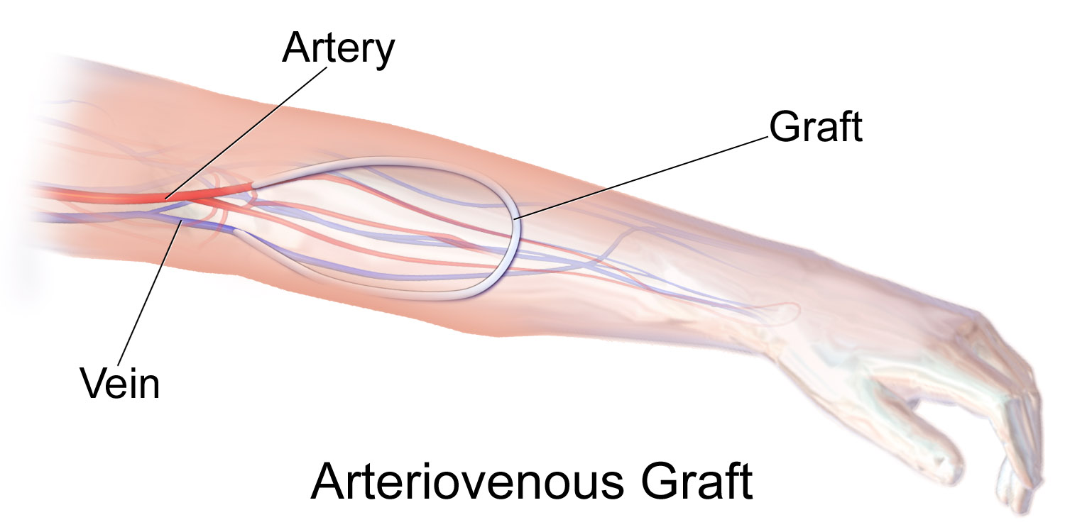 Arteriovenous Graft. This image was donated by Blausen Medical. Please visit our website to see more medical illustrations and animations.